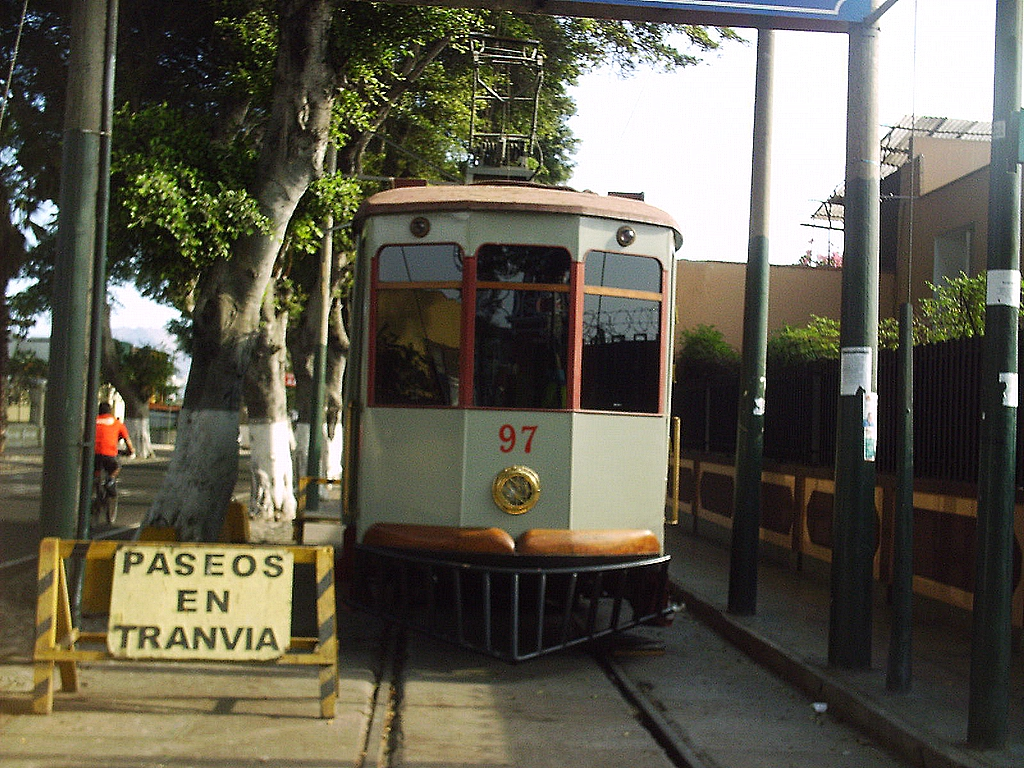 This picture was taken by me on april 10, 2006 with a Vivitar camera